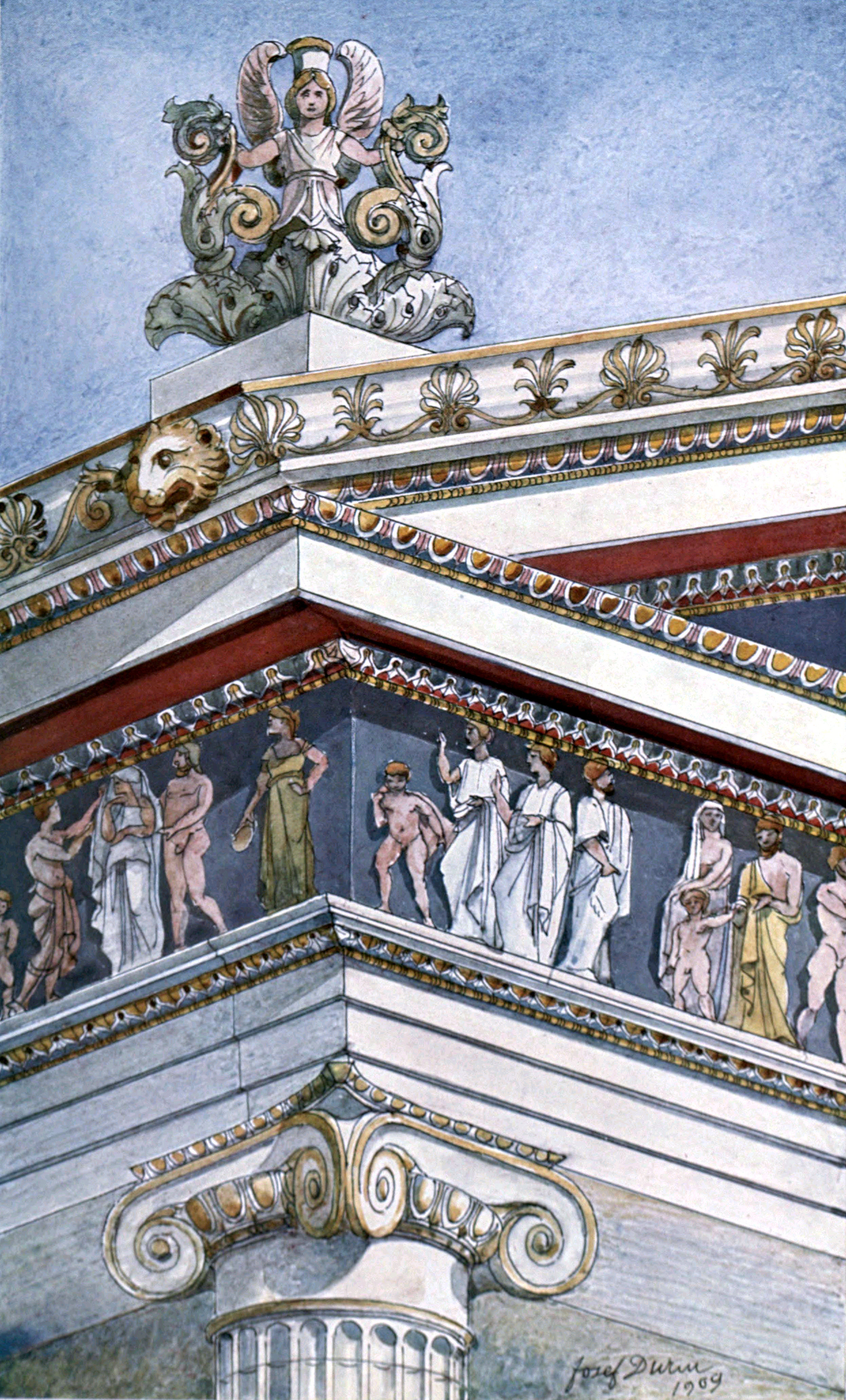 Ionic polychromy Die Baukunst der Griechen